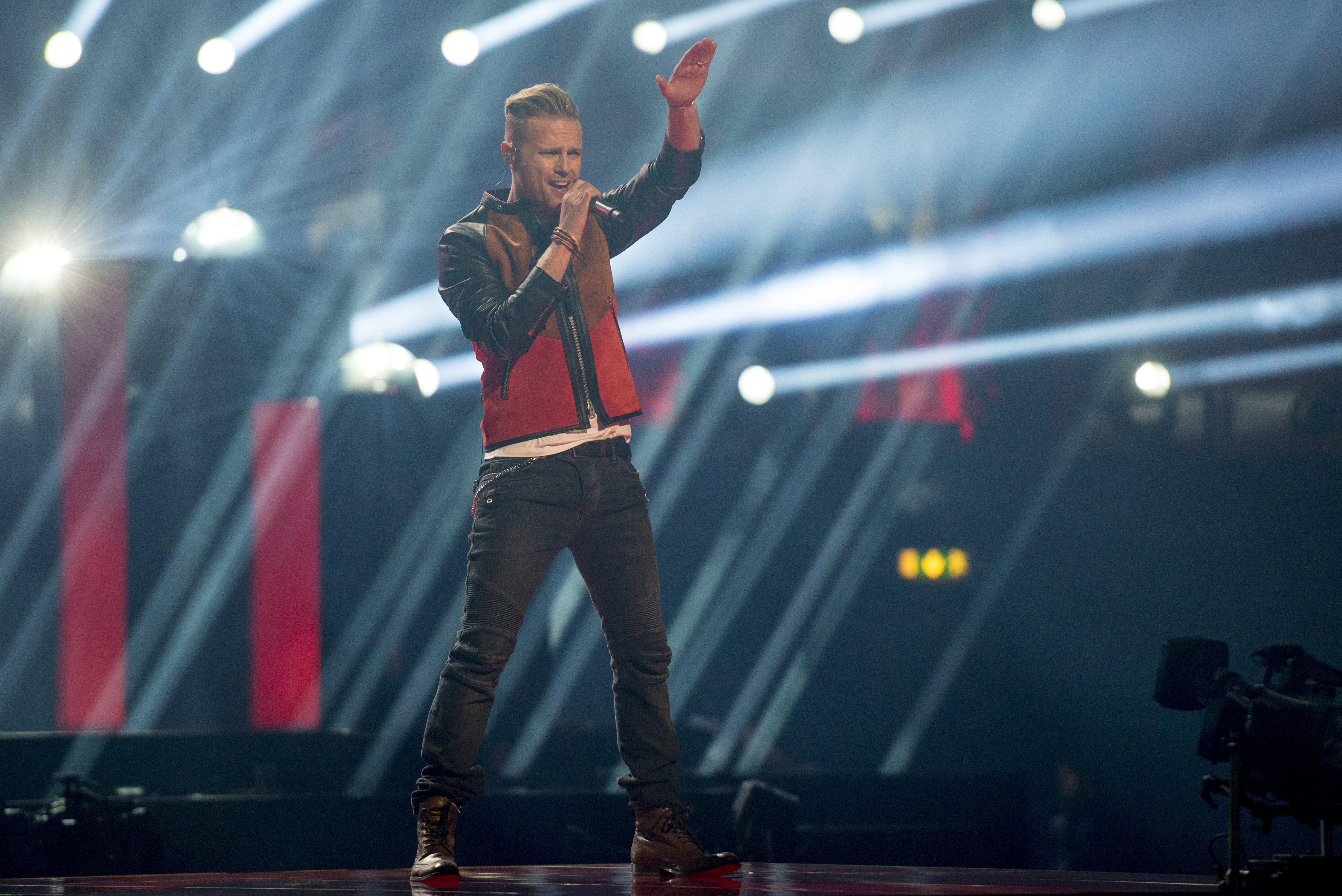 Nicky Byrne representing Ireland with the song "Sunlight" during a rehearsal before the second semi final of the Eurovision Song Contest 2016 in Stockholm. (Help translate this text)